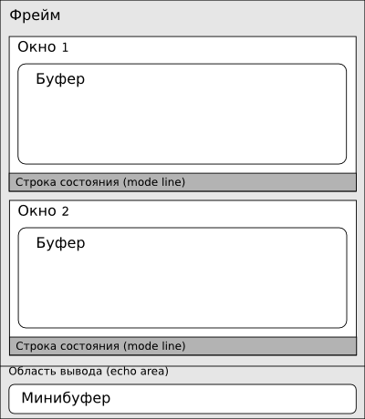 Emacs interface diagram